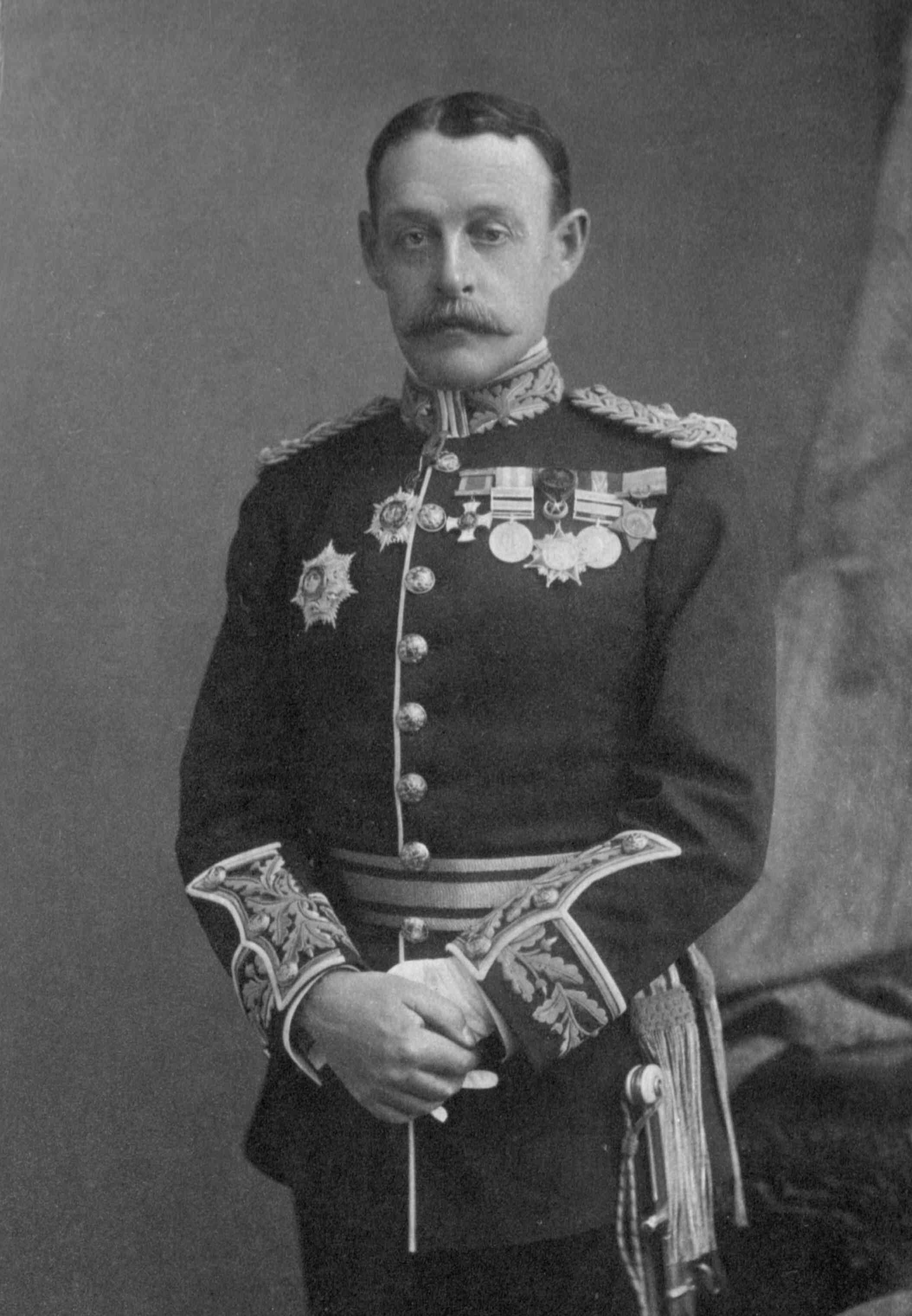 scanned photogravure reproduction of photograph of Archibald Hunter by Alexander Bassano.